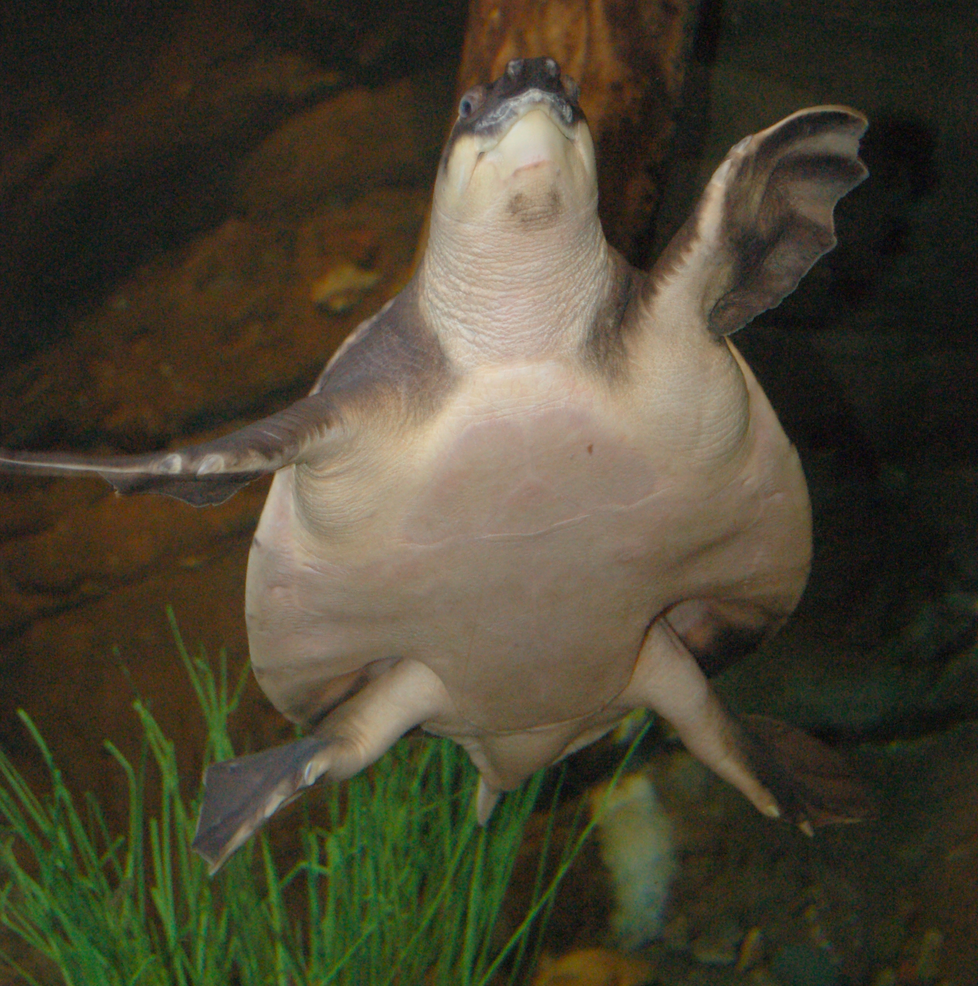 The underside of a Australasian Pig-nose Turtle (Carettochelys insculpta). Picture taken at the Philadelphia Zoo where the identification was made.